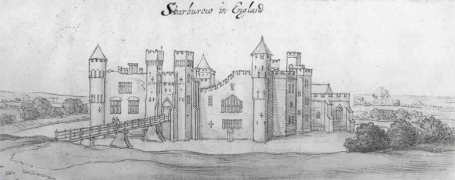 A Wenceslas Hollar drawing of Starborough Castle as it was circa 1640, in pen and ink.